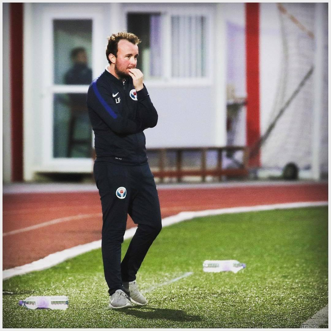 Angels FC Manager